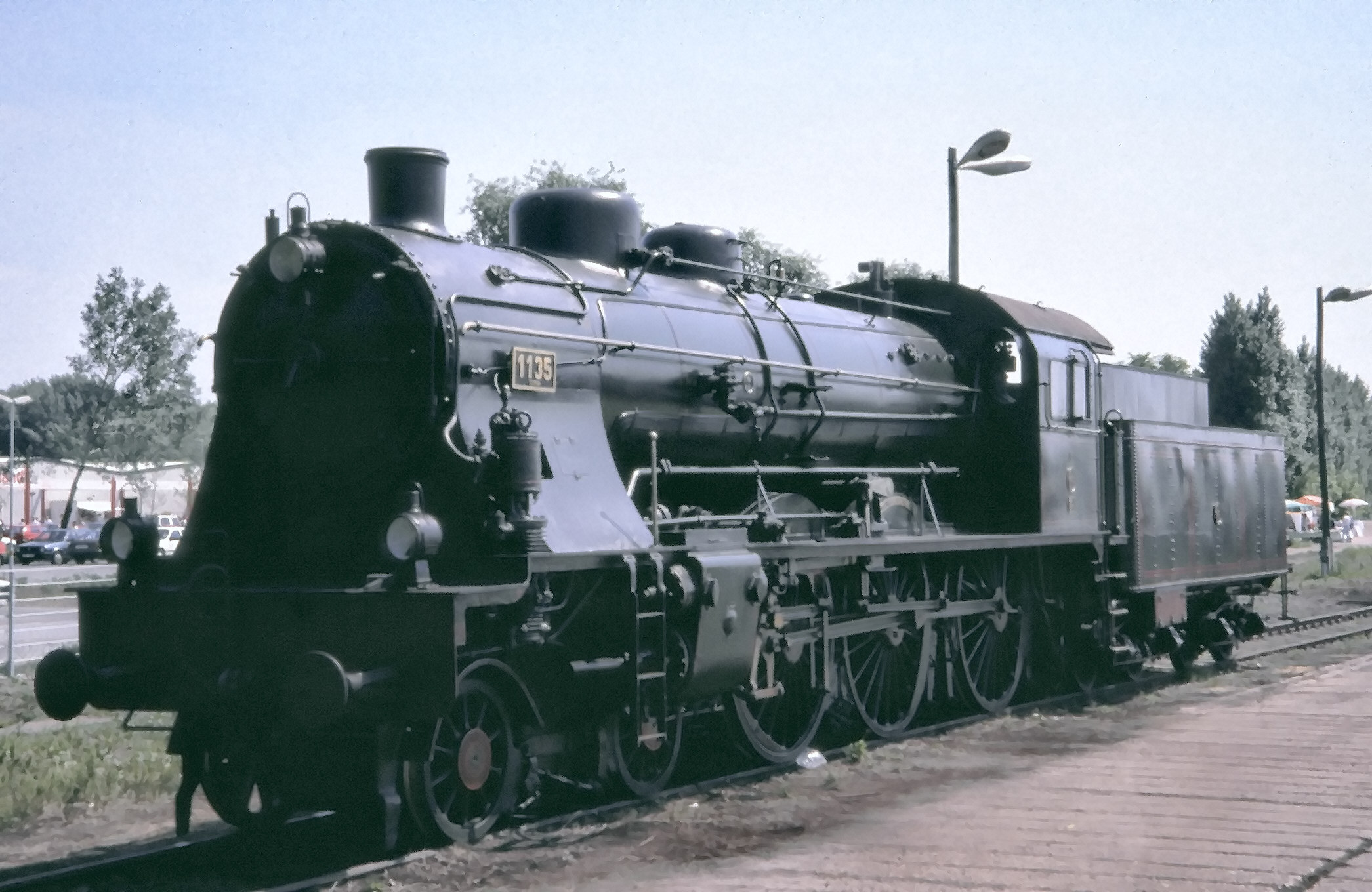 Prussian steam locomotive S10.1 as Osten 1135 at Potsdam Hauptbahnhof in Germany.